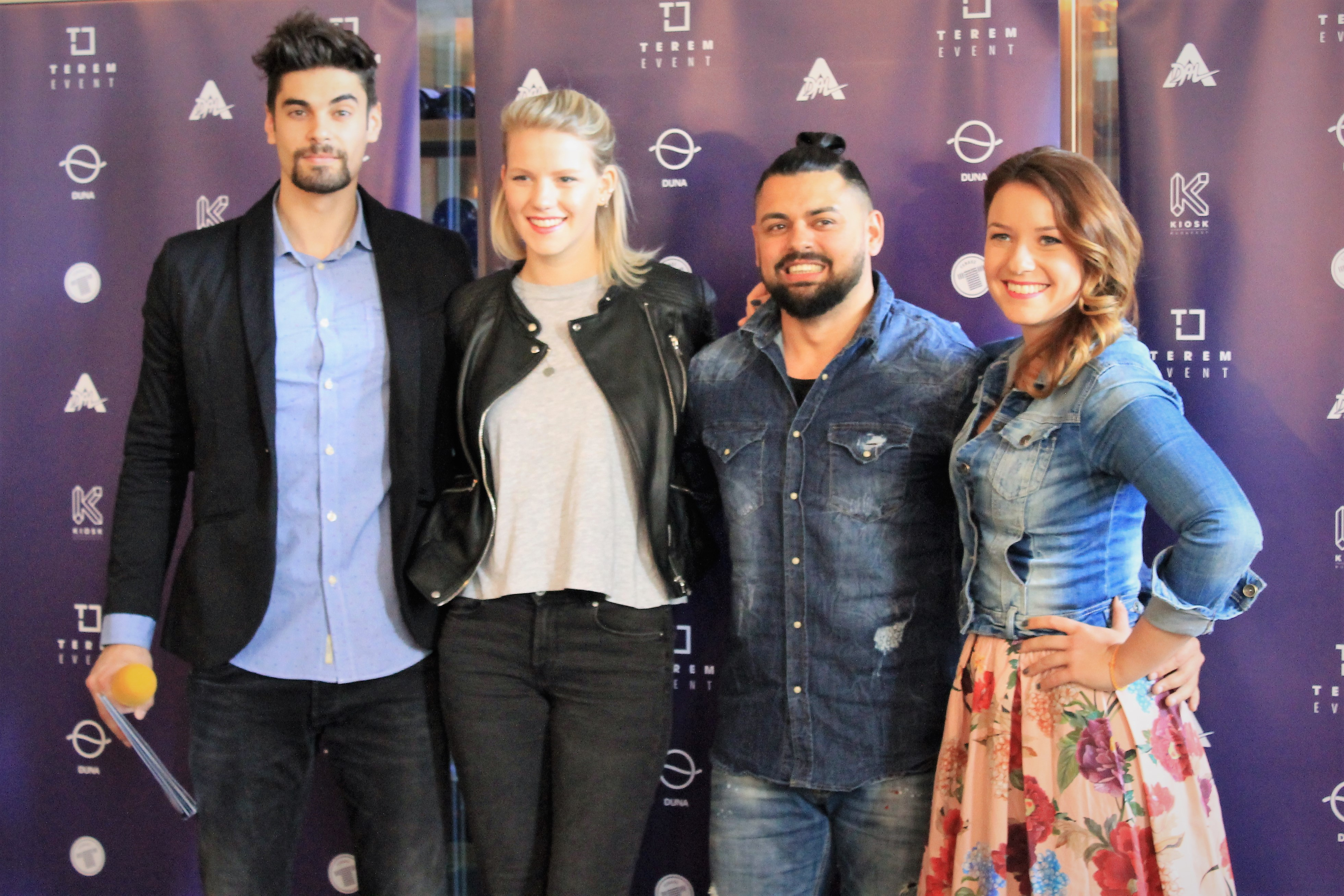 Freddie, the commentator for the Hungarian transmission of the Eurovision Song Contest, Levina, the German representative at the Eurovision Song Contest 2017, Joci Pápai, the Hungarian representative at the Eurovision Song Contest 2017, Kriszta Rátonyi, the other commentator for the Hungarian transmission of the Eurovision Song Contest. (r–l)